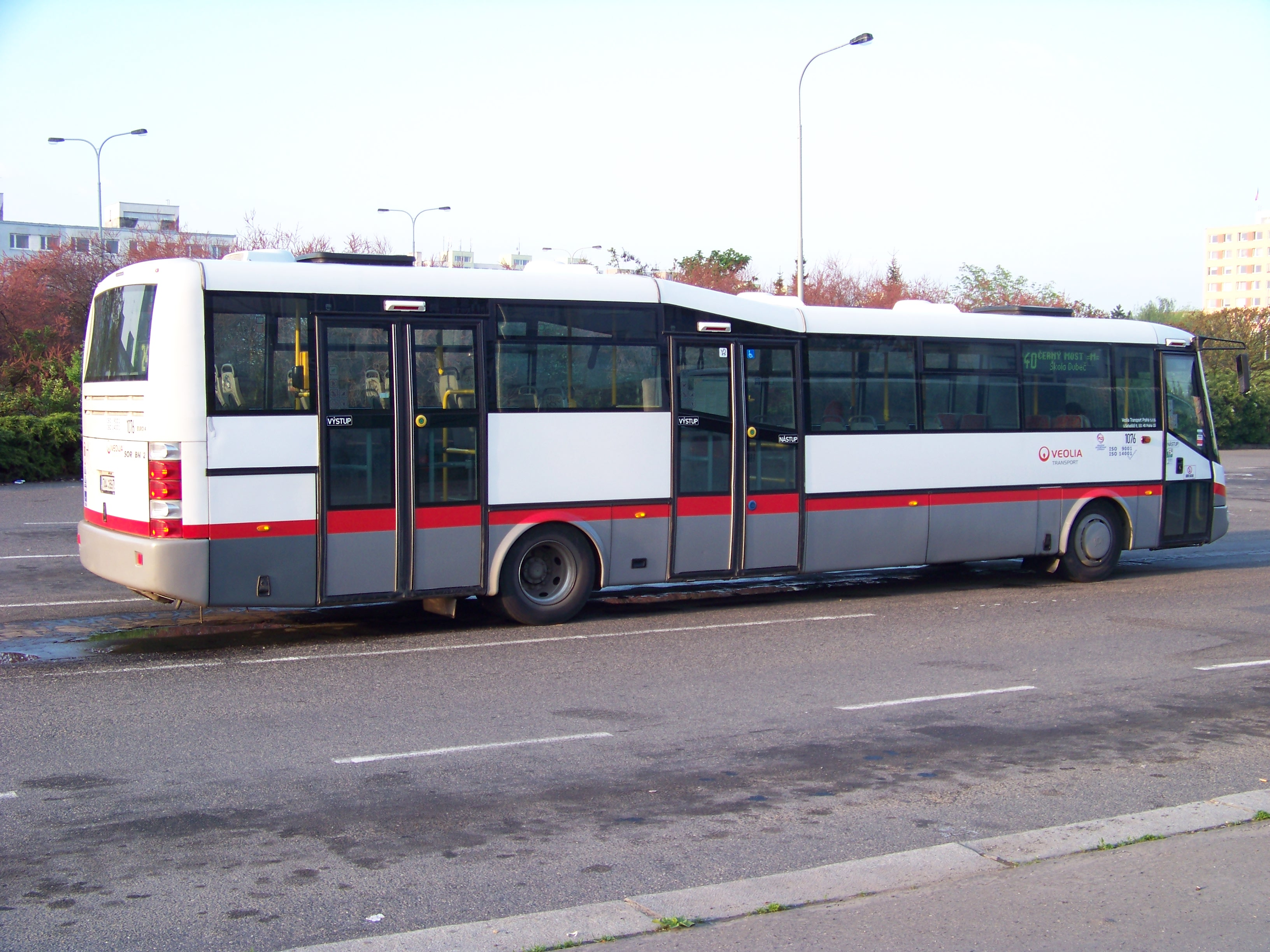 Háje, Prague, the Czech Republic. Bus SOR BN 12 of Veolia Transport Praha.